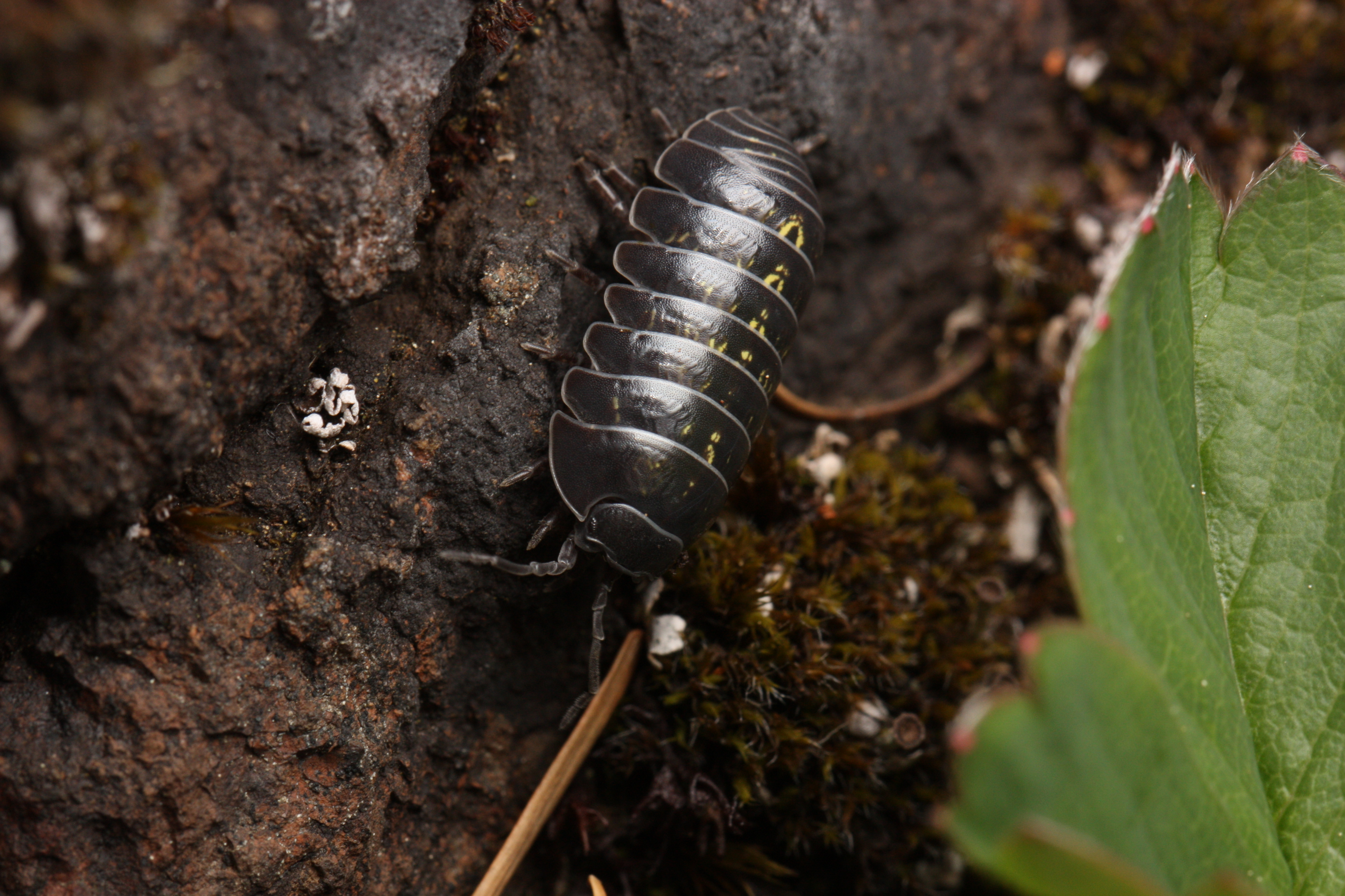 Pill-bug Viewpoint location: Goose Rock Summit Trail, Deception Pass State Park Viewpoint elevation: 145 meter (476 ft) Location source: Google Earth Location Datum: WGS84